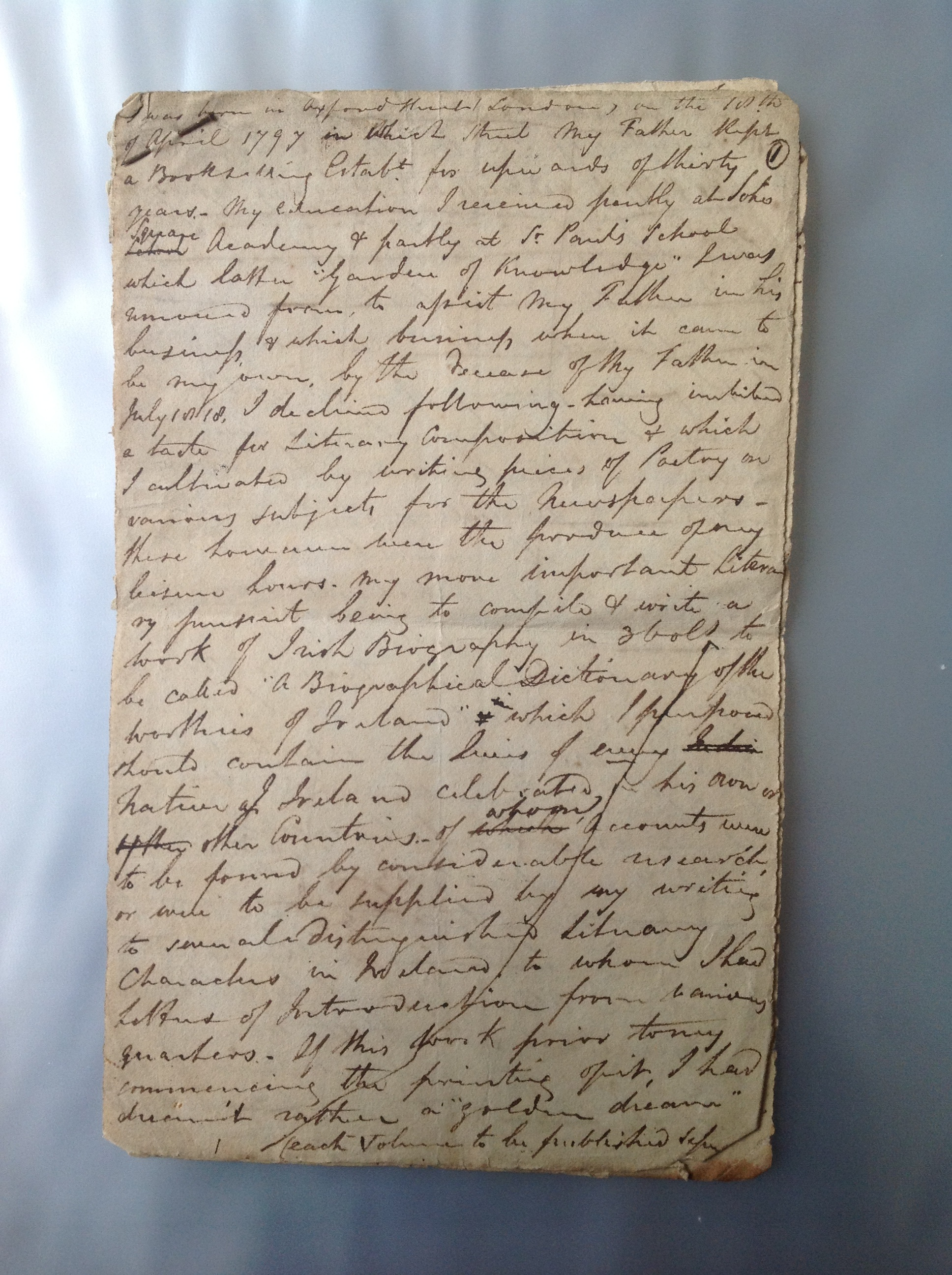 Letter by Richard Ryan describing his life and future plans in 1819.